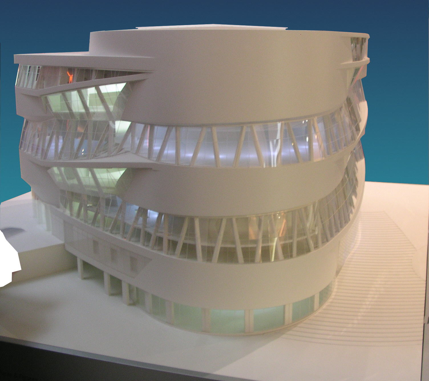 Mercedes-Benz-museum